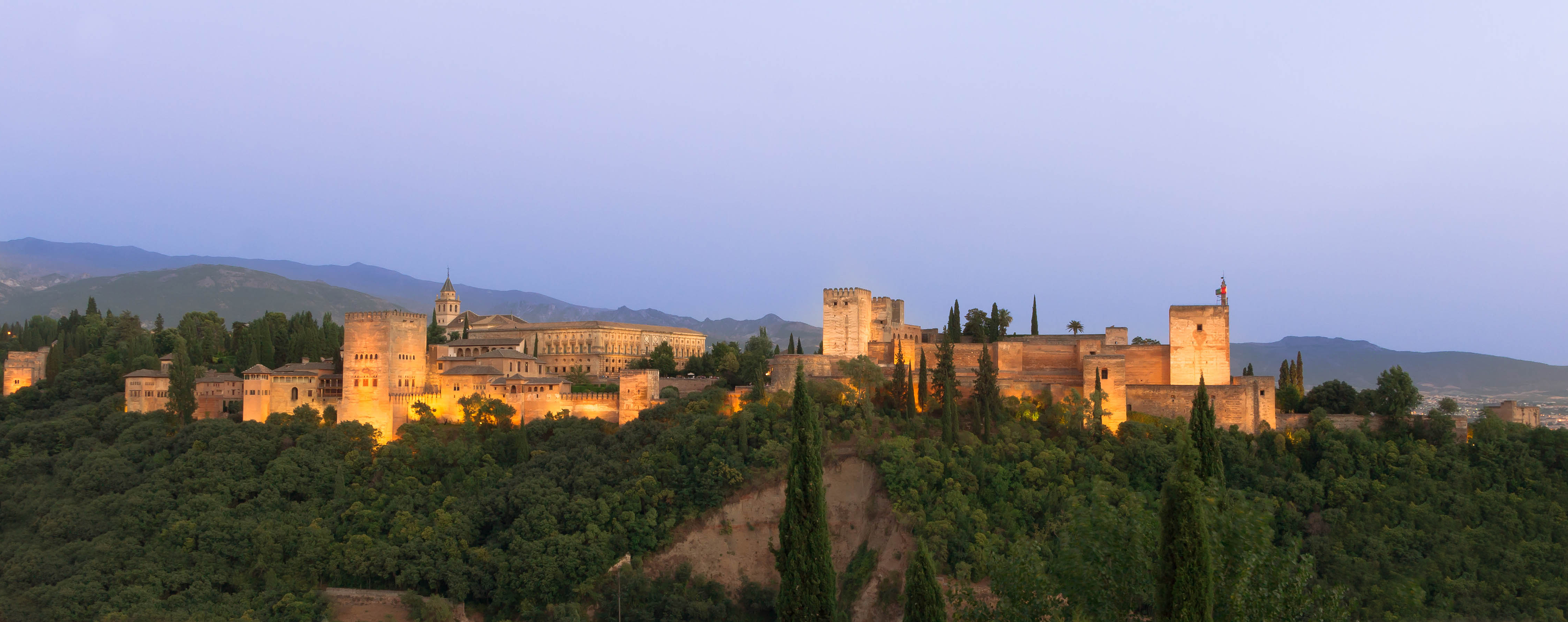 Alhambra at dusk, from Mirador San Nicolas, Granada, Spain.